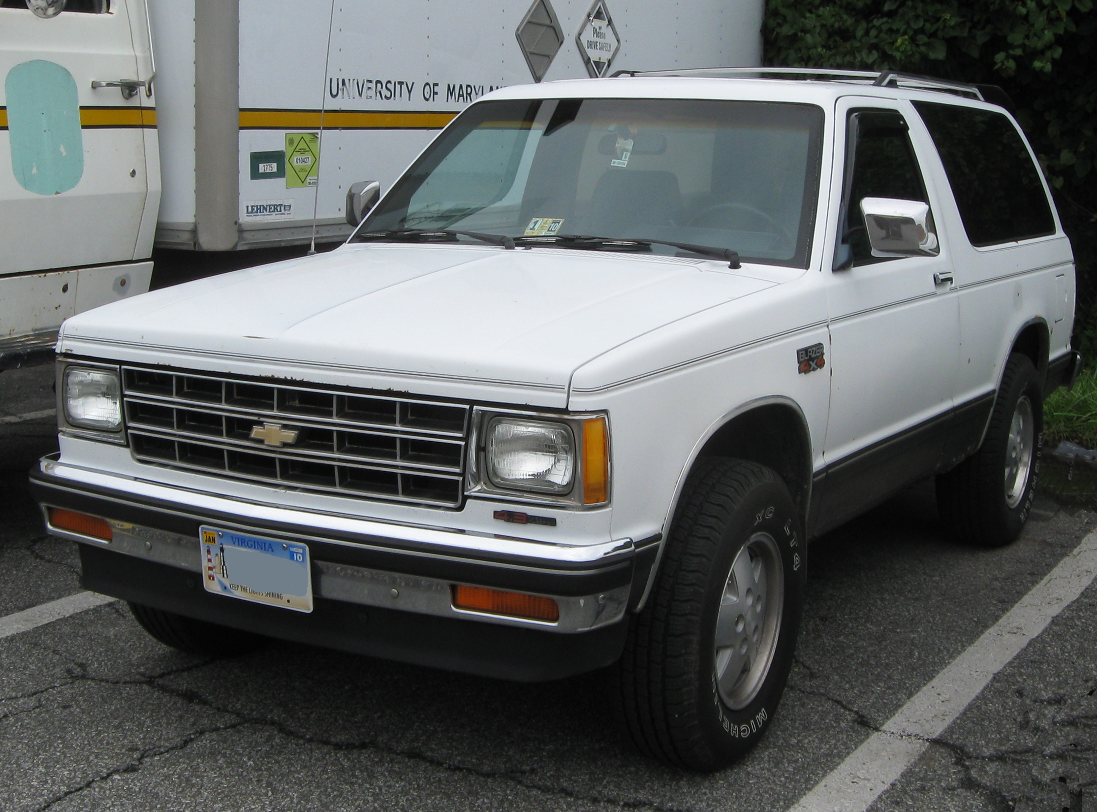 Chevrolet S-10 Blazer photographed in College Park, Maryland, USA.